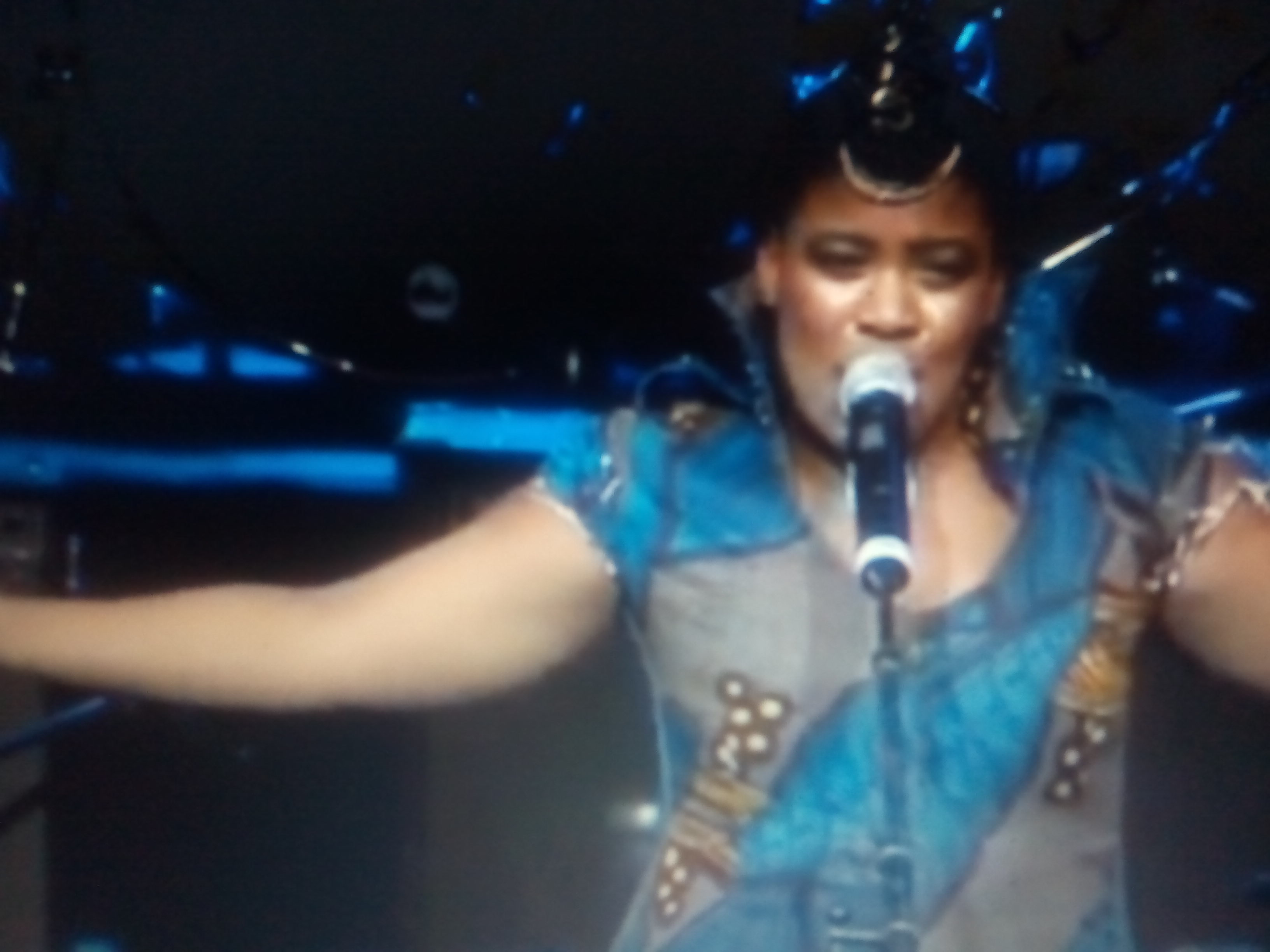 Thandiswa Mazwai performing live on stage.